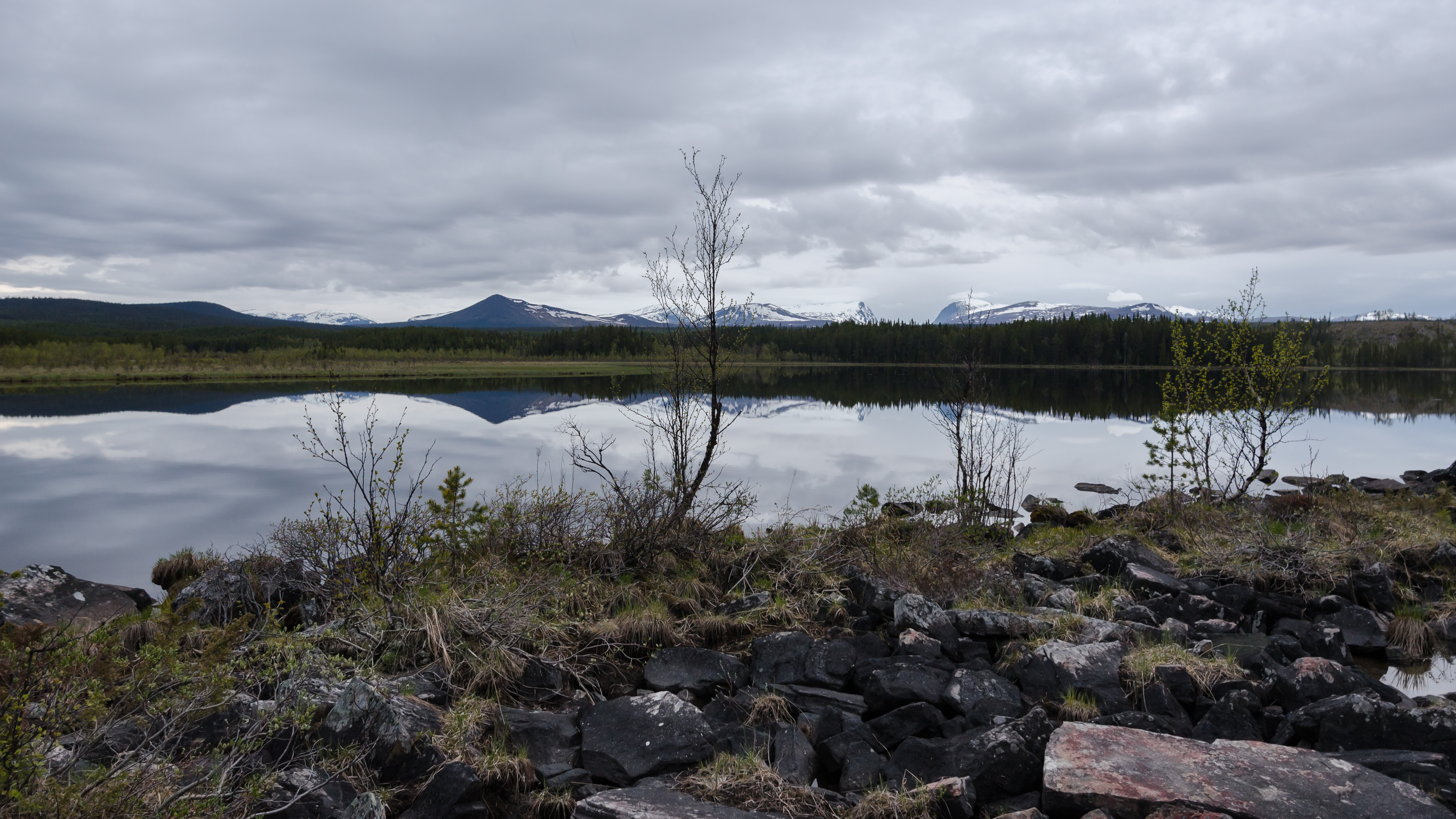 Midnight view of lake Väster-Rotsjön. Berg Municipality, Jämtland County.